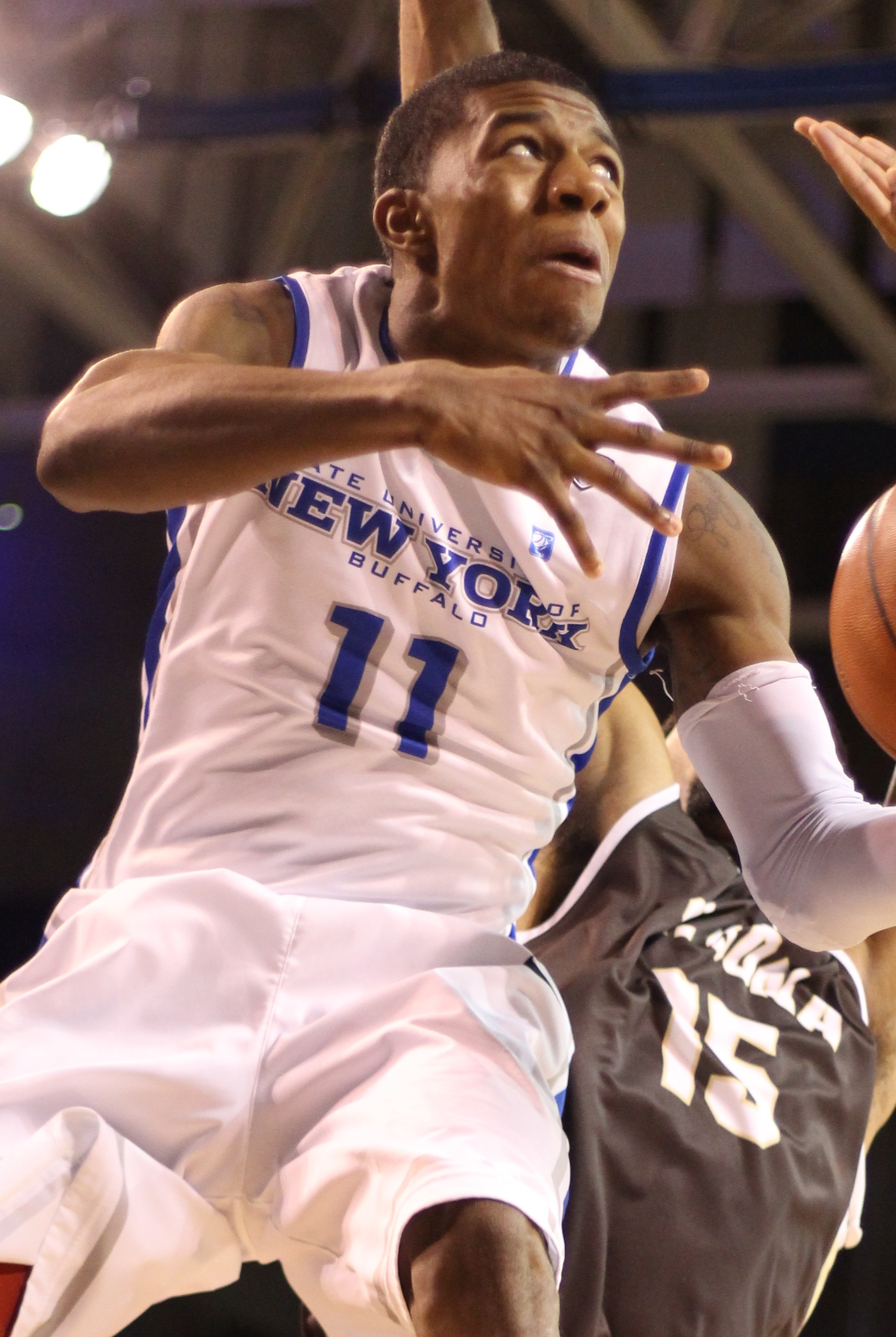 Shannon Evans - Buffalo Bulls